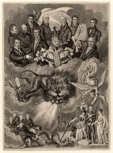 Political cartoon of the Reform Act 1832